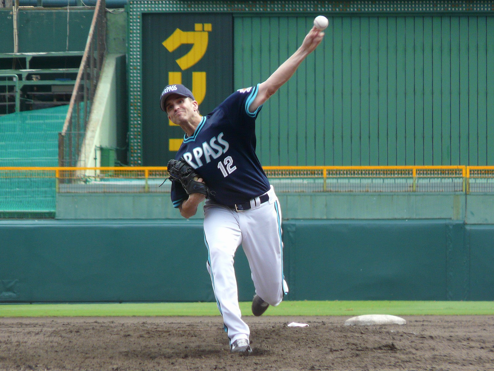 John Koronka